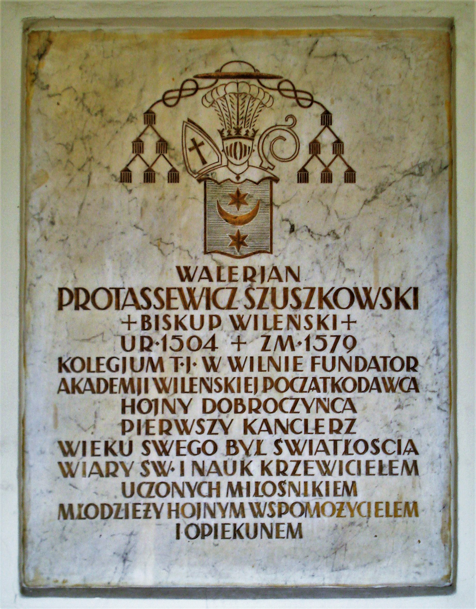 Vilnius University. Great Courtyard. Walerjan Protassewicz memorial plaque